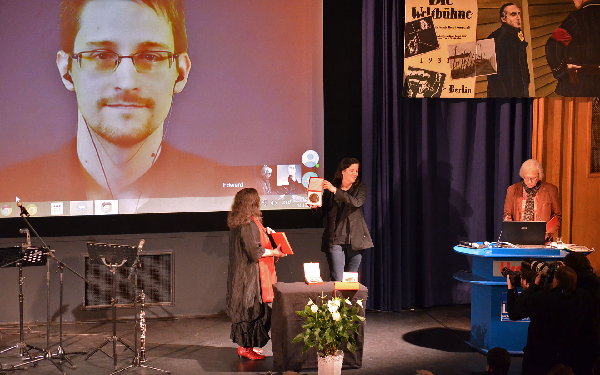 Ceremony for the conferment of the Carl von Ossietzky Medall 2014 to Edward Snowden, Laura Poitras and Glenn Greenwald. Laura Poitras receives the Medall on behalf of Edward Snowden.